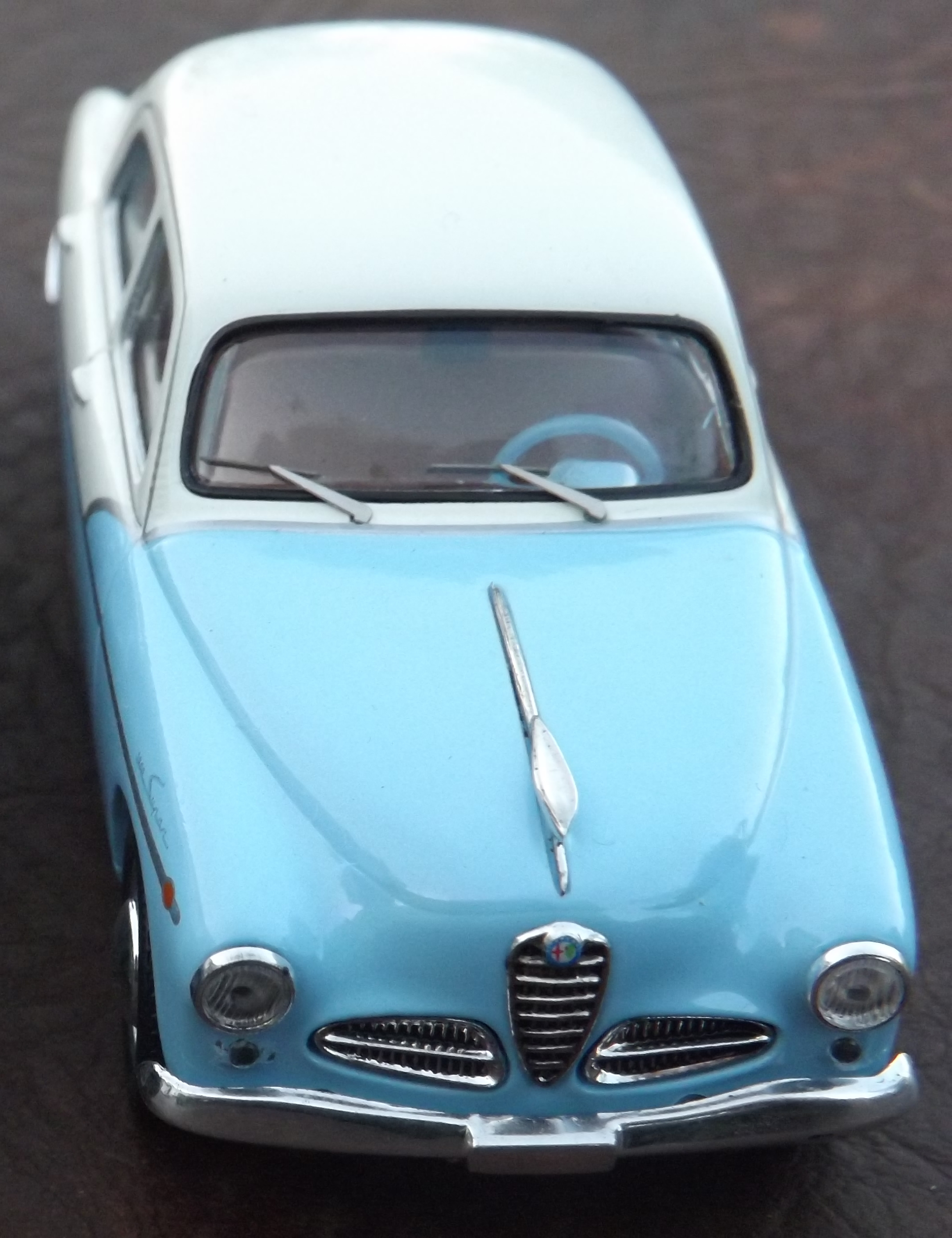 Alfa Romeo 1900 TI Super Berlina (1956) diecast by M4. Made in Italy